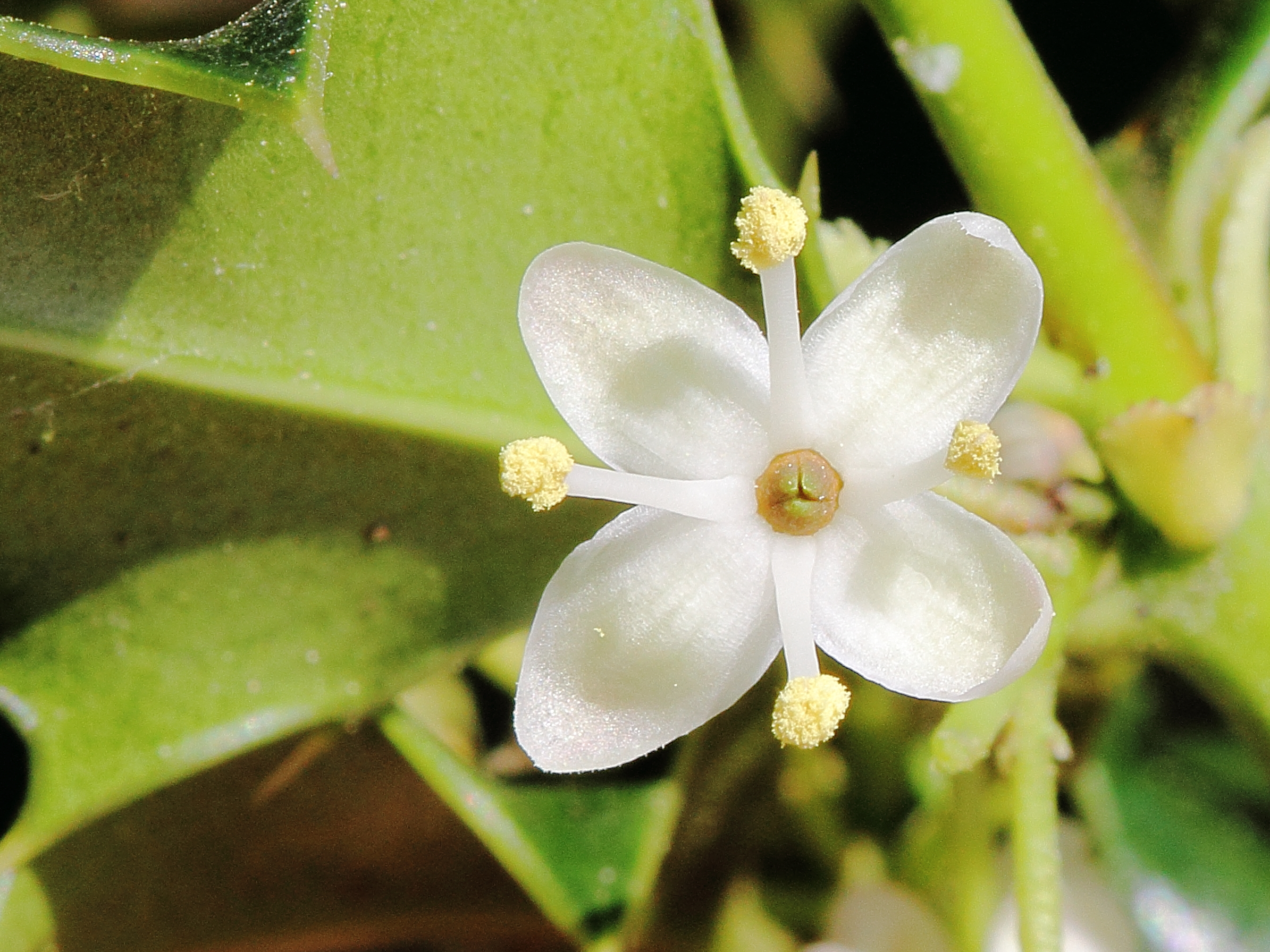 Detailed view of male blossom of Holly (ilex aquifolium). Picture taken in private garden, Germany